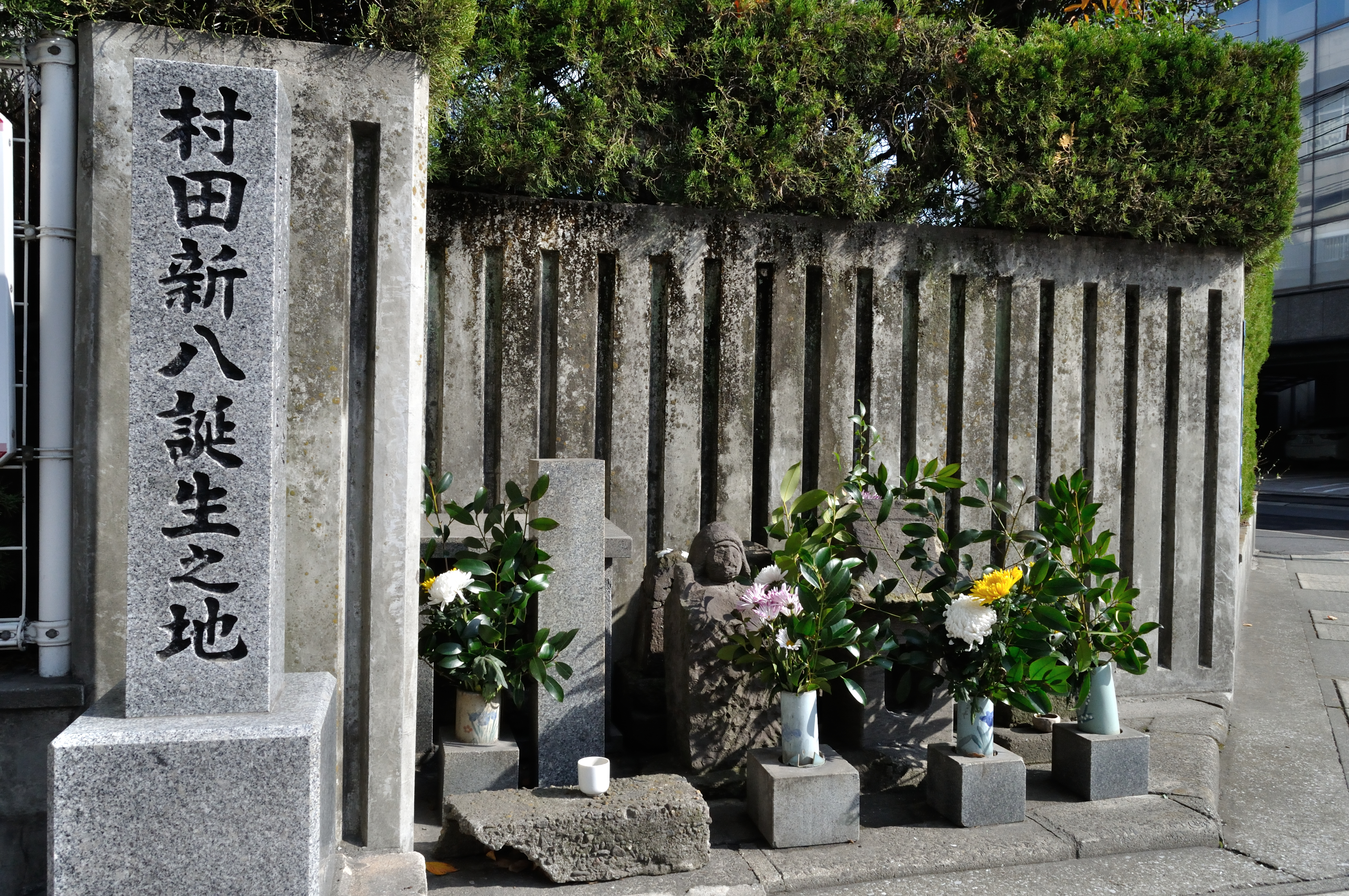 Birthplace of MURATA Shinpachi